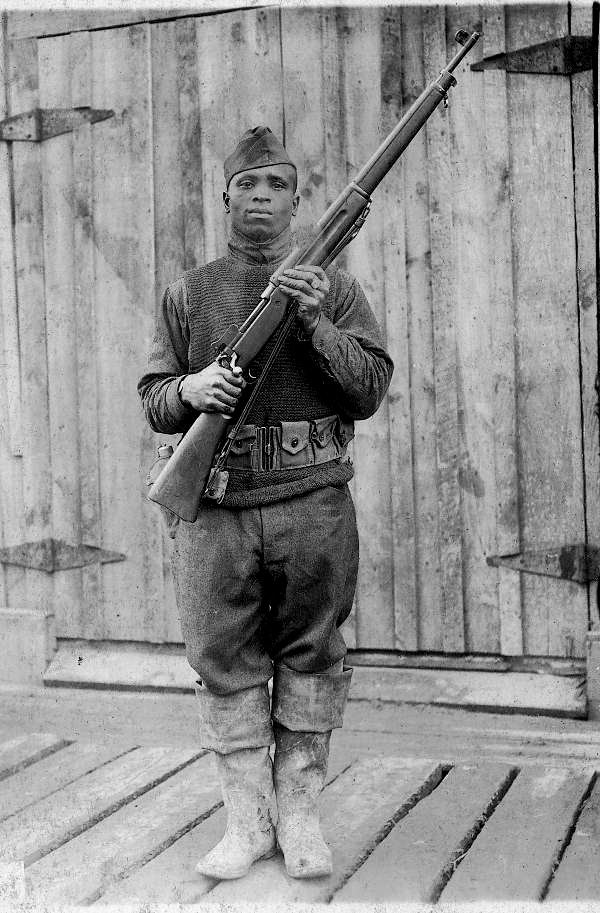 Persistent URL: Local call number: N049085 Title: Unidentified WWI soldier Date: ca. 1918 Physical descrip: 1 photonegative - b&w - 5 x 4 in. Series Title: General Collections Repository: State Library and Archives of Florida 500 S. Bronough St., Tallahassee, FL, 32399-0250 USA, Contact: 850.245.6700